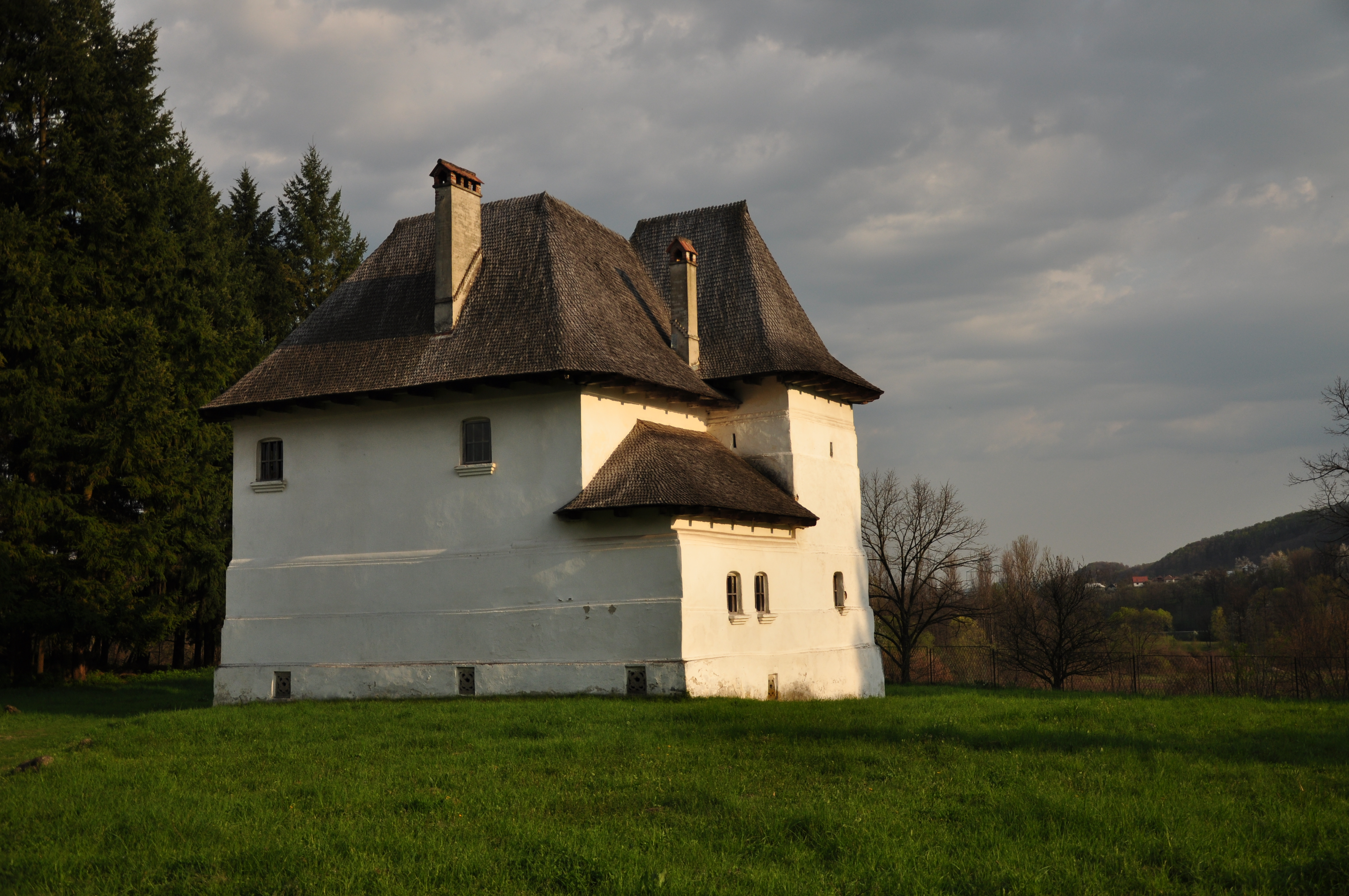 Cula Greceanu (18th cent.) semi-fortified building in Măldărești, Vâlcea CountyRomână: Cula Greceanu (sec. XVIII) - jud. Vâlcea, comuna Măldărești, sat Măldărești, Ansamblul Culei Greceanu 01